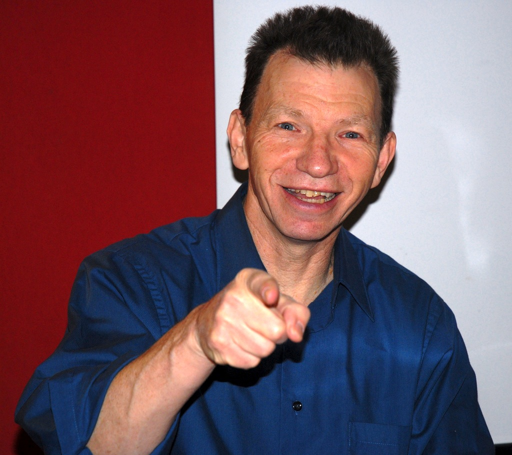 Picture of Max Grodénchik taken by Luigi Rosa at Deepcon 10 in Fiuggi (Italy) in March 2009